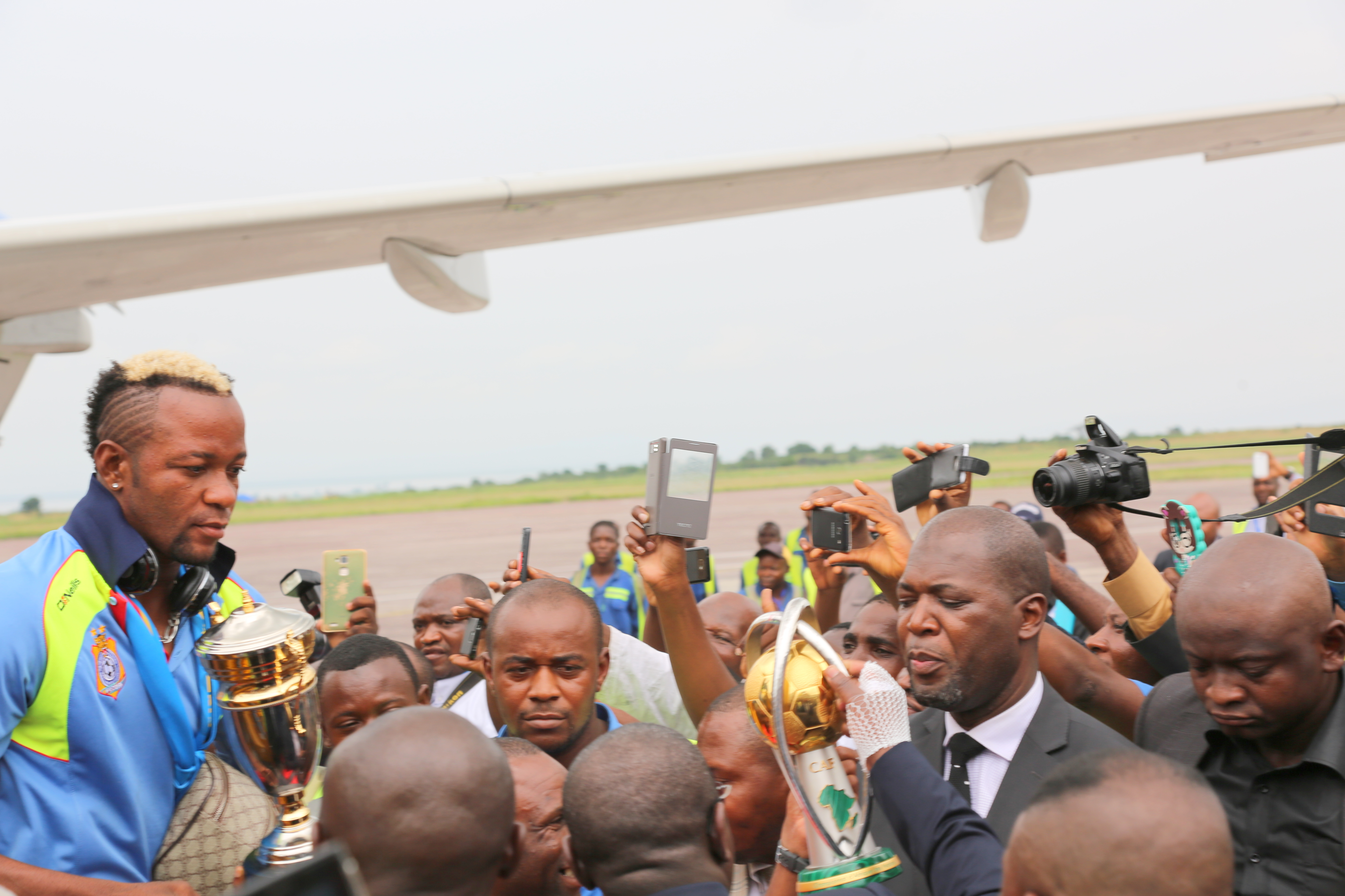 The “Leopards” welcomed by a cheering crowd as they arrive at Ndjili airport after winning the African Nations Football Championship.